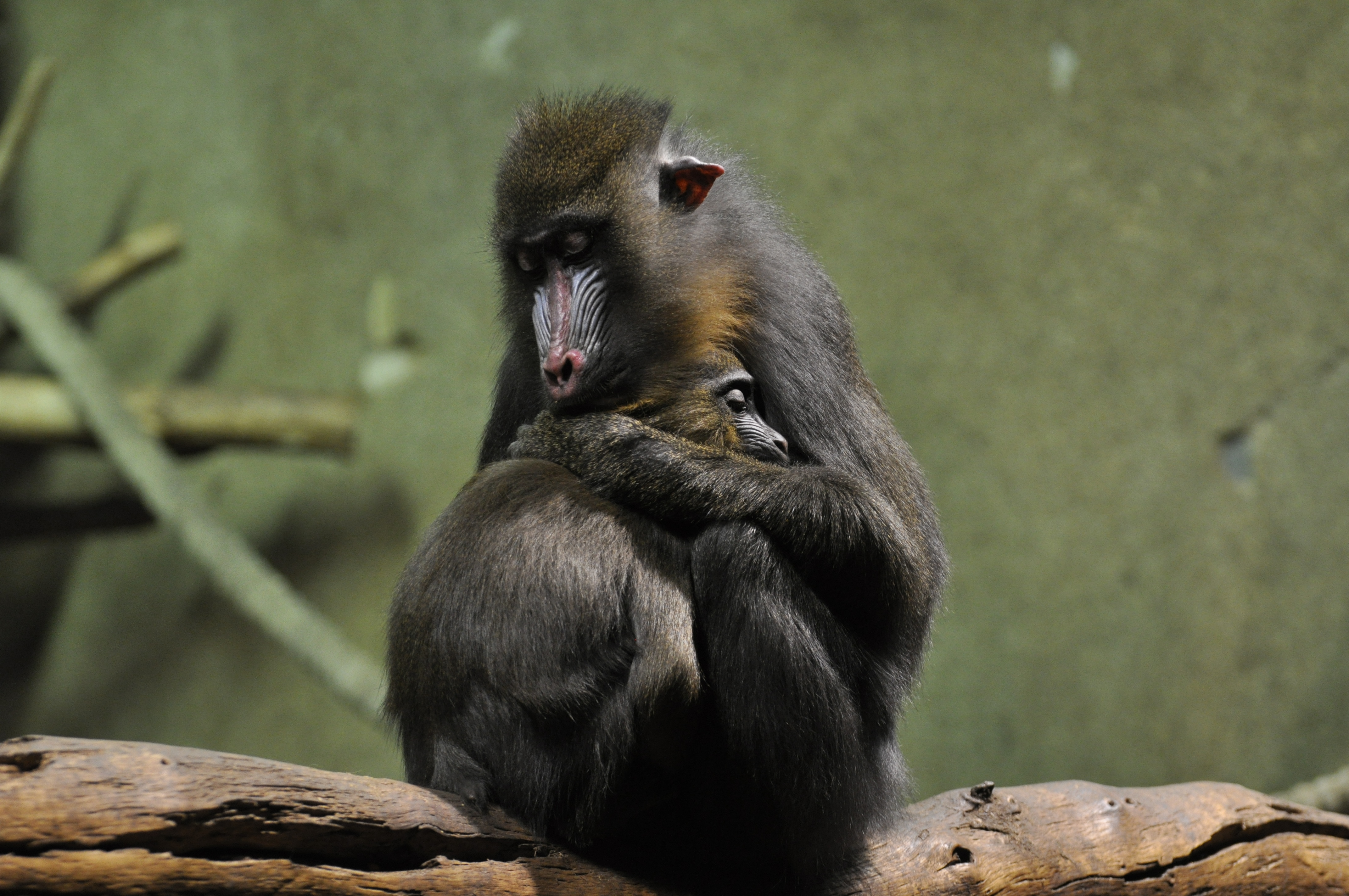 Mandrill sleeping mother with baby in Hagenbecks Tierpark, Hamburg.